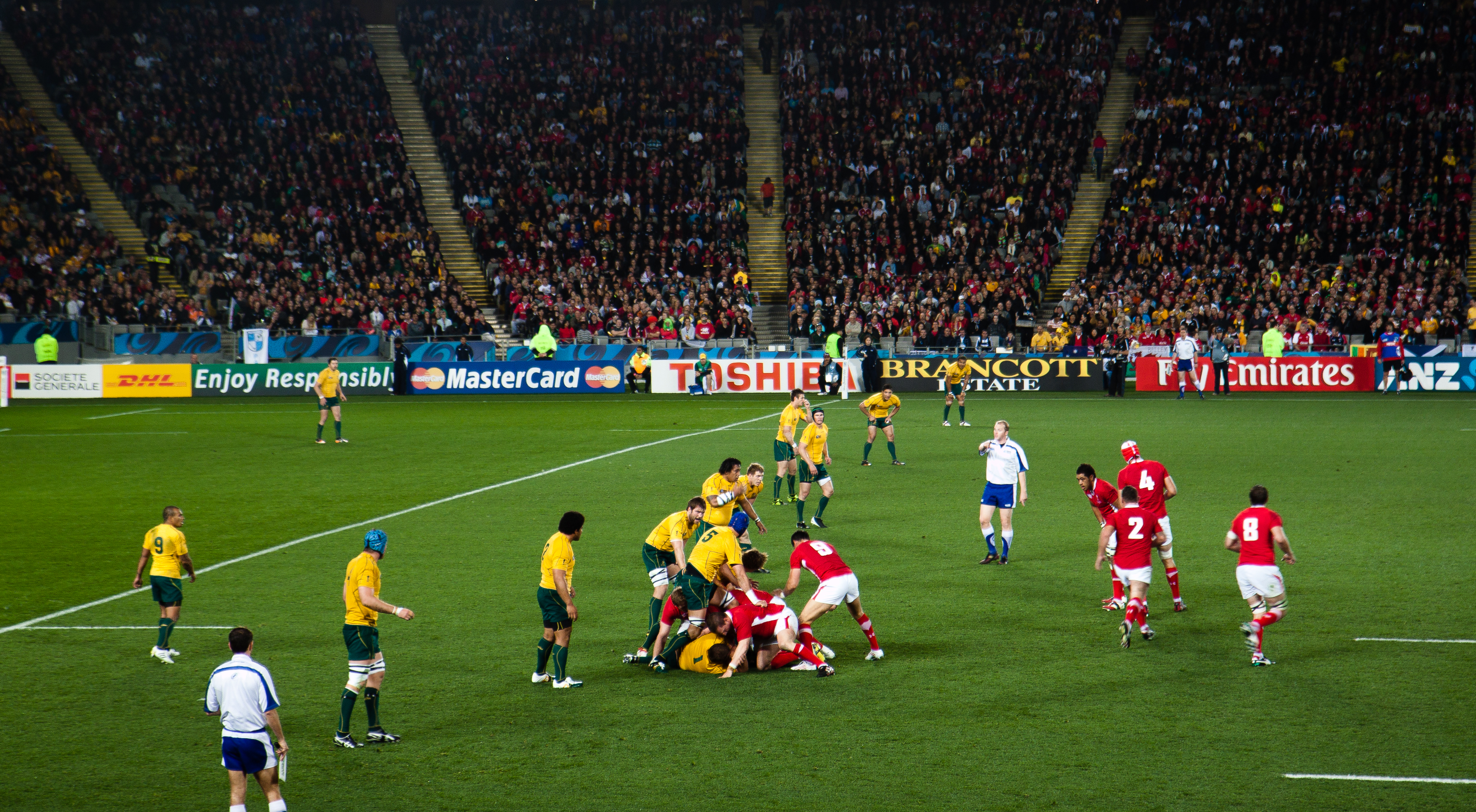 Match between Wales and Australia (Bronze Final) during 2011 Rugby World Cup in New Zealand.